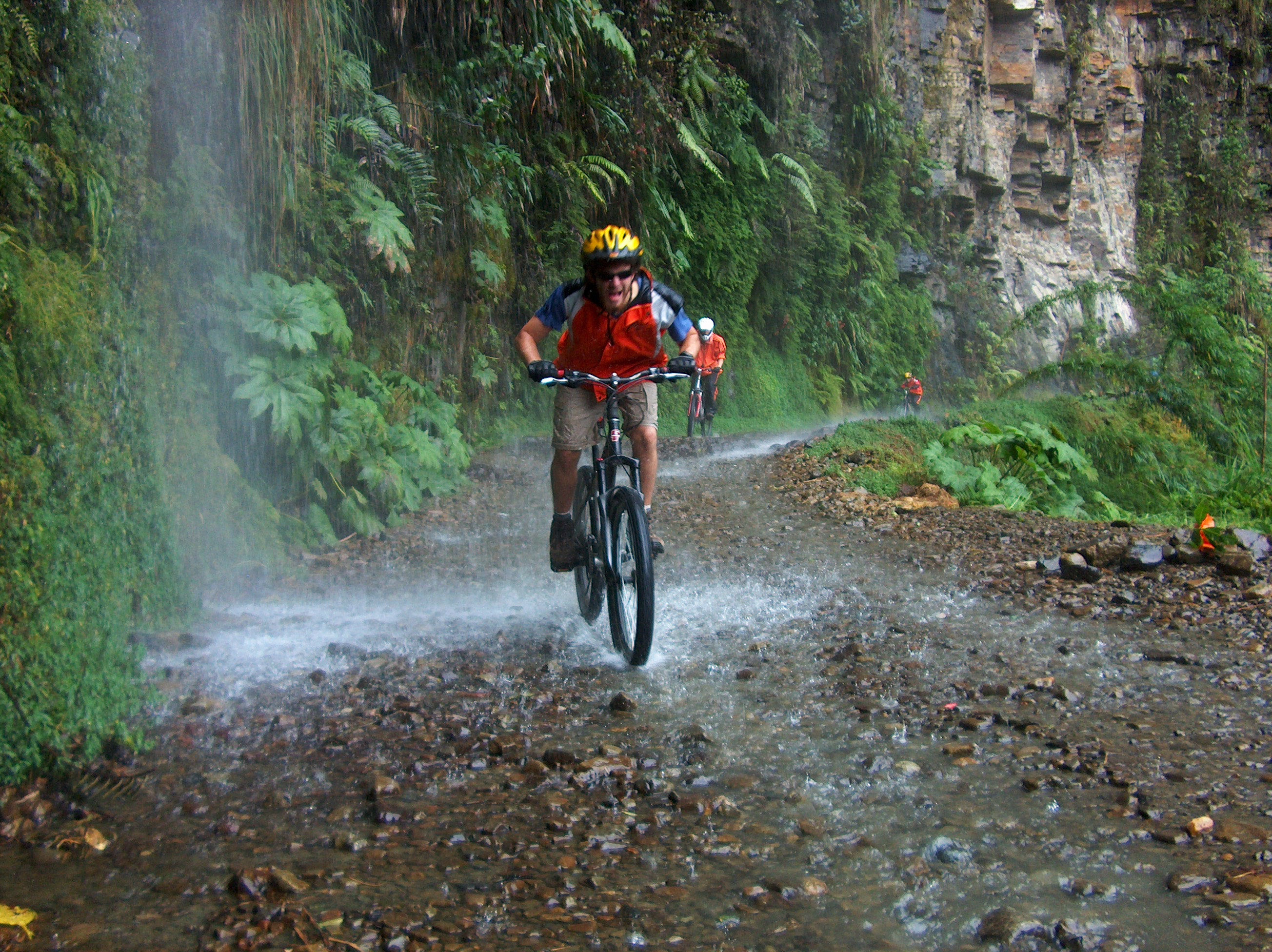 Cyclist in the Yungas (Death) Road in Bolivia